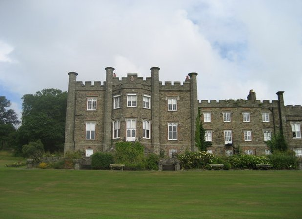 The Nunnery, Douglas, Isle of Man. Built 1823 by John Pinch. Home of the Isle of Man International Business School and the Isle of Man University Centre. This version cropped and straightened by user:zzuuzz